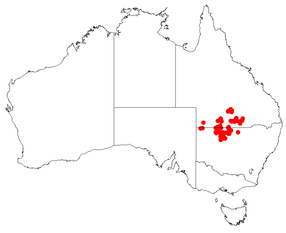 Hakea ivoryi Occurrence data downloaded from Australasian Virtual Herbarium on 22 November 2018 using